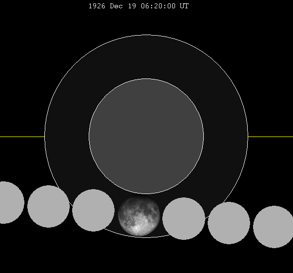 December 1926 lunar eclipse chart of moon's penumbral lunar eclipse path through the earth's shadow. thumb